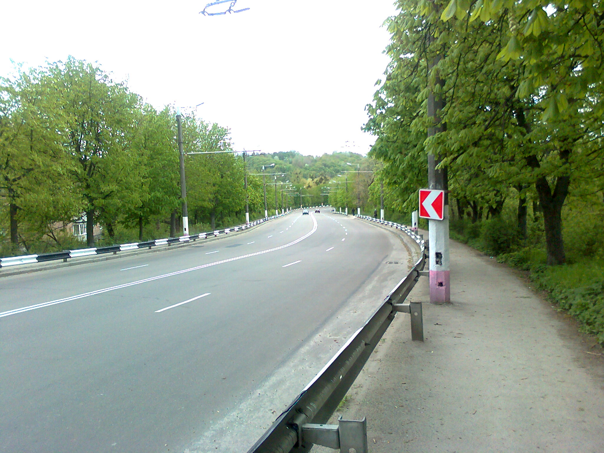 Chudnivskiy bridge in Zhytomyr